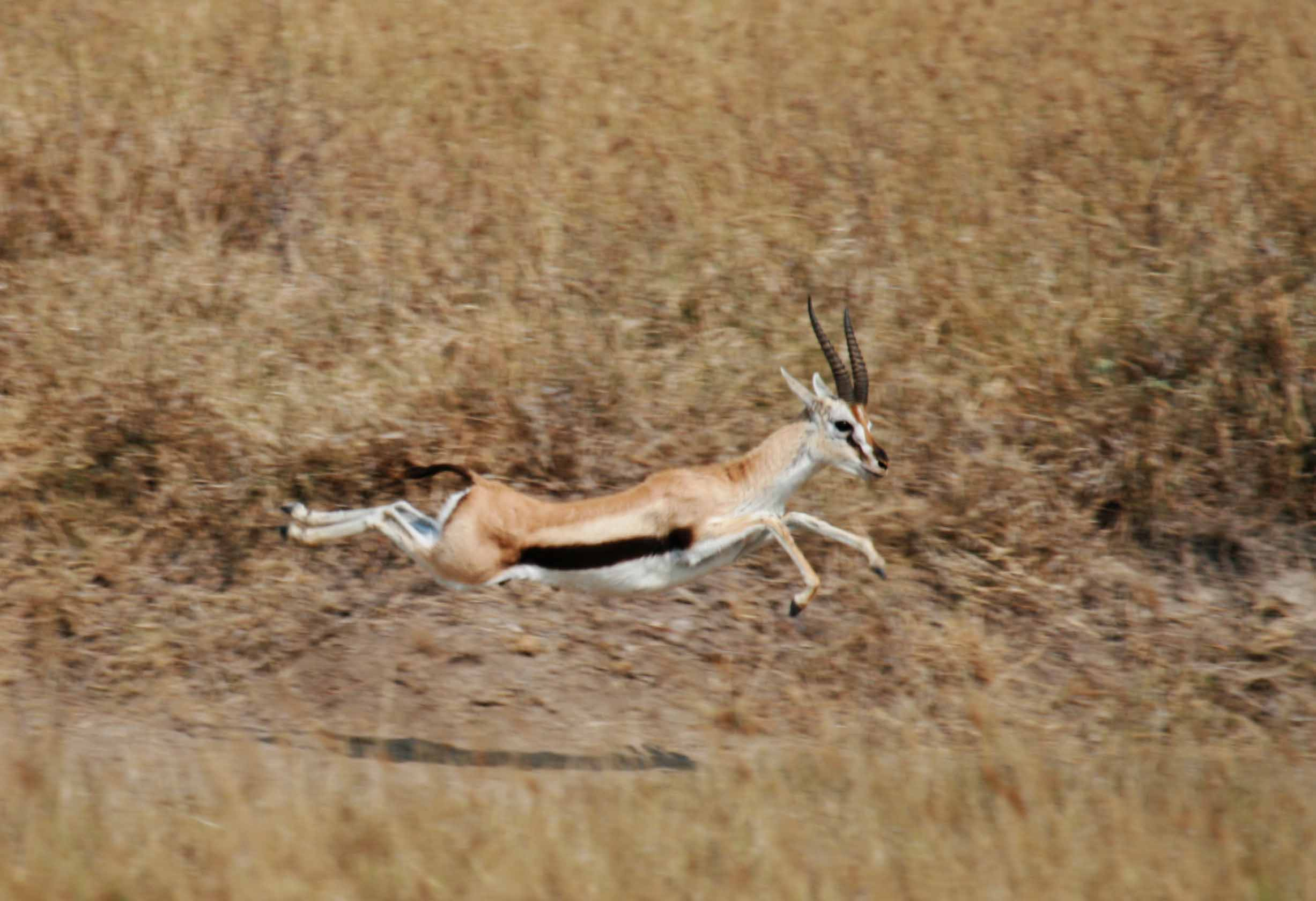 Thomson's gazelle in flight from a cheetah attack. Ngorongoro Crater, Tanzania. Photo by Lee R. Berger